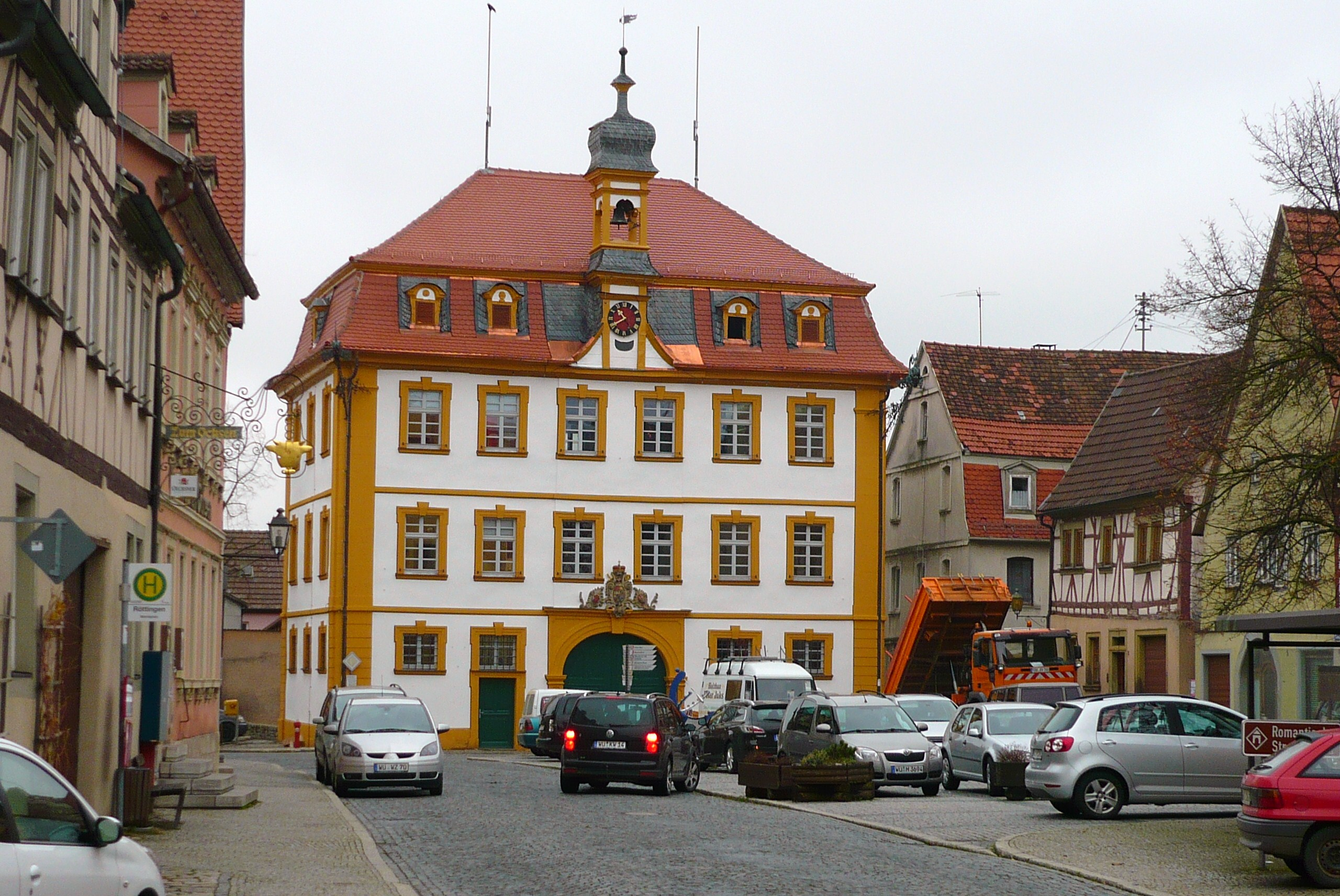 The townhall in Röttingen